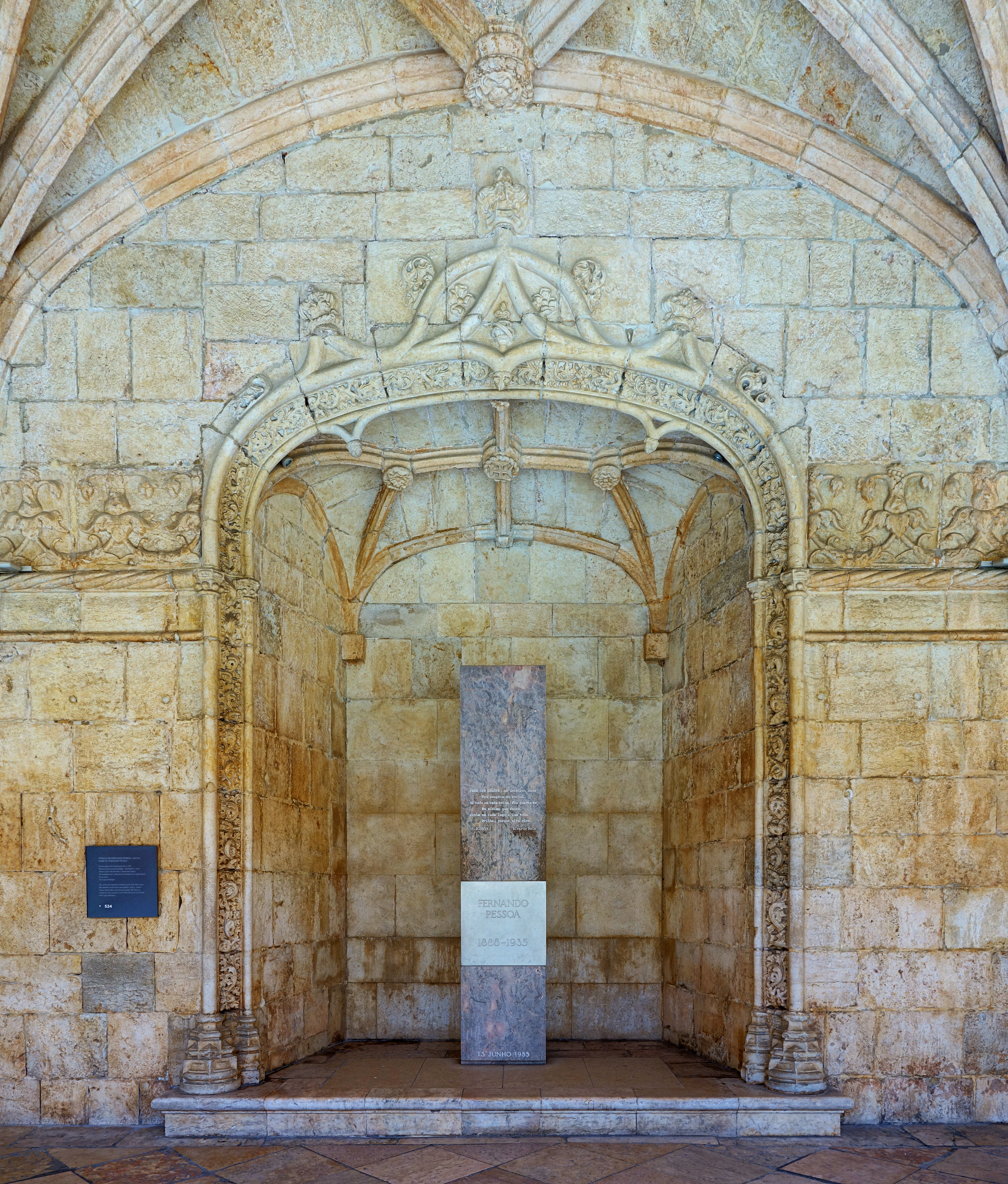 Tomb of Fernando Pessoa (1888-1935) in Jerónimos Monastery in Belém, Portugal.